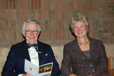 Gerald R. Ford Library and Museum Director Elaine Didier, right, at the Library on March 21, 2006 with Henry Catto, an ambassador of the United States to a variety of countries. Location: Gerald R. Ford Library Ann Arbor, Michigan Date: March 21, 2006 Credit: Courtesy Gerald R. Ford Library Rights Information: Public Domain (No usage fees, no permission required).